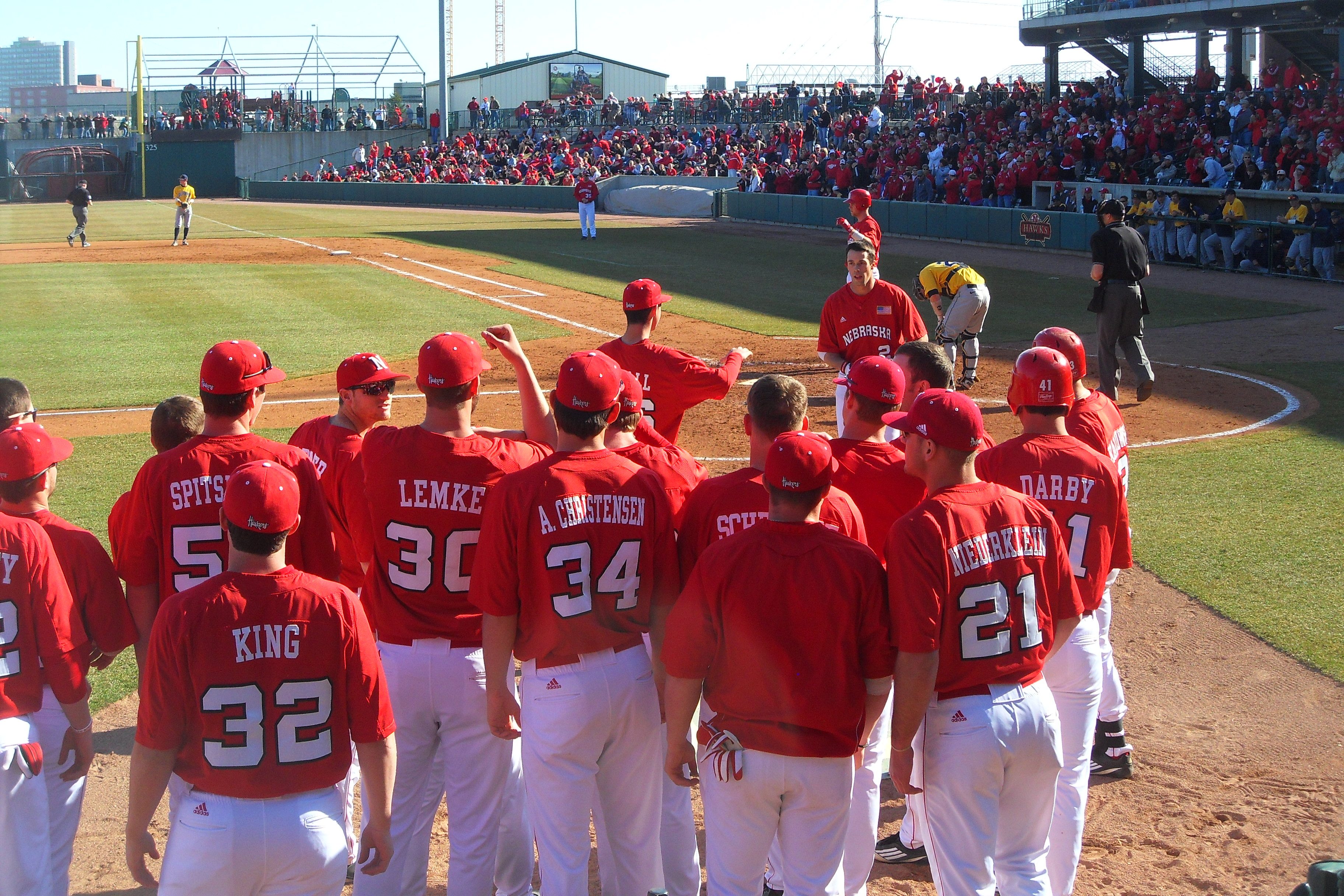 Nebraska Cornhuskers baseball team celebrating a homerun by Chad Christensen